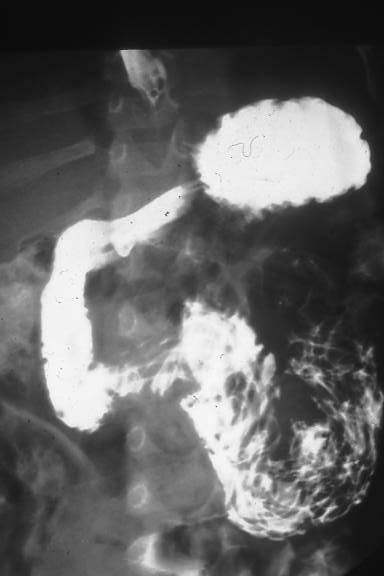 Low radioactive barium is swallowed as contrast medium for the X-ray film. It shows the duodenum, the first portion of the bowel after the stomach, packed with worms. The worms are the black areas showing up as a tangled mass within the white of the contrast medium. It is believed that this is a natural part of the ascaris' daily round but predisposes to migration into the biliary tree. Duodenum: The first portion of the bowel after the stomach. Bile drains from the liver into the duodenum through a duct that emerges at the Ampulla of Vater....this reflects the first description of this duct by Vater in the 17th century. The "Barium meal" is an X-ray technique where the patient swallows a metallic-based fluid (Barium is the metal) which shows up as white on an X-ray film. The radiologist can watch what happens as this fluid is swallowed and as it goes on down through the stomach and small intestine. Photo by Larry Hadley, South Africa